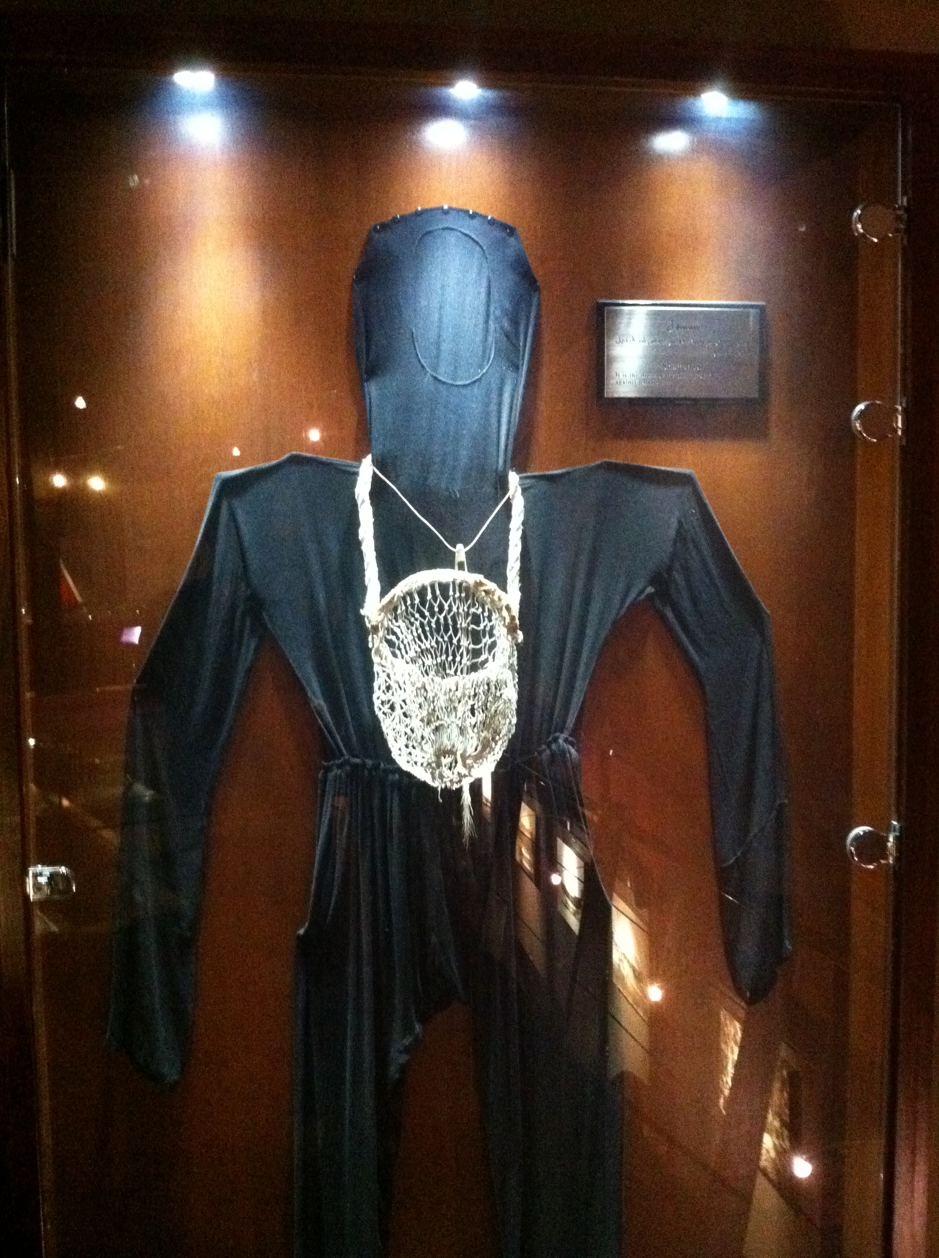 old kuwaiti dress used during diving